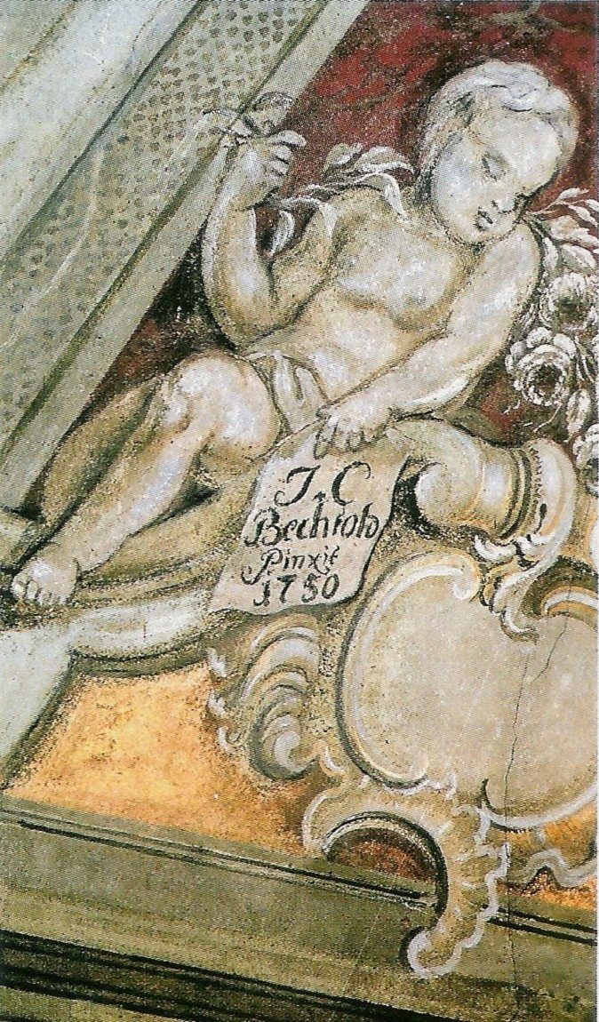 Signatur des Malers Johann Conrad Bechtold (1698-1786) Kirchendecke, St. Johannes der Täufer Mönchberg